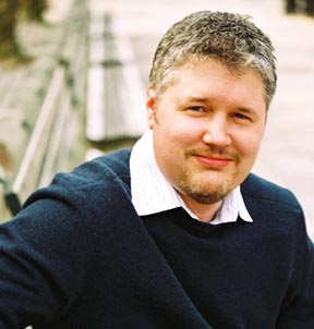 This image was copied from en. The original description was